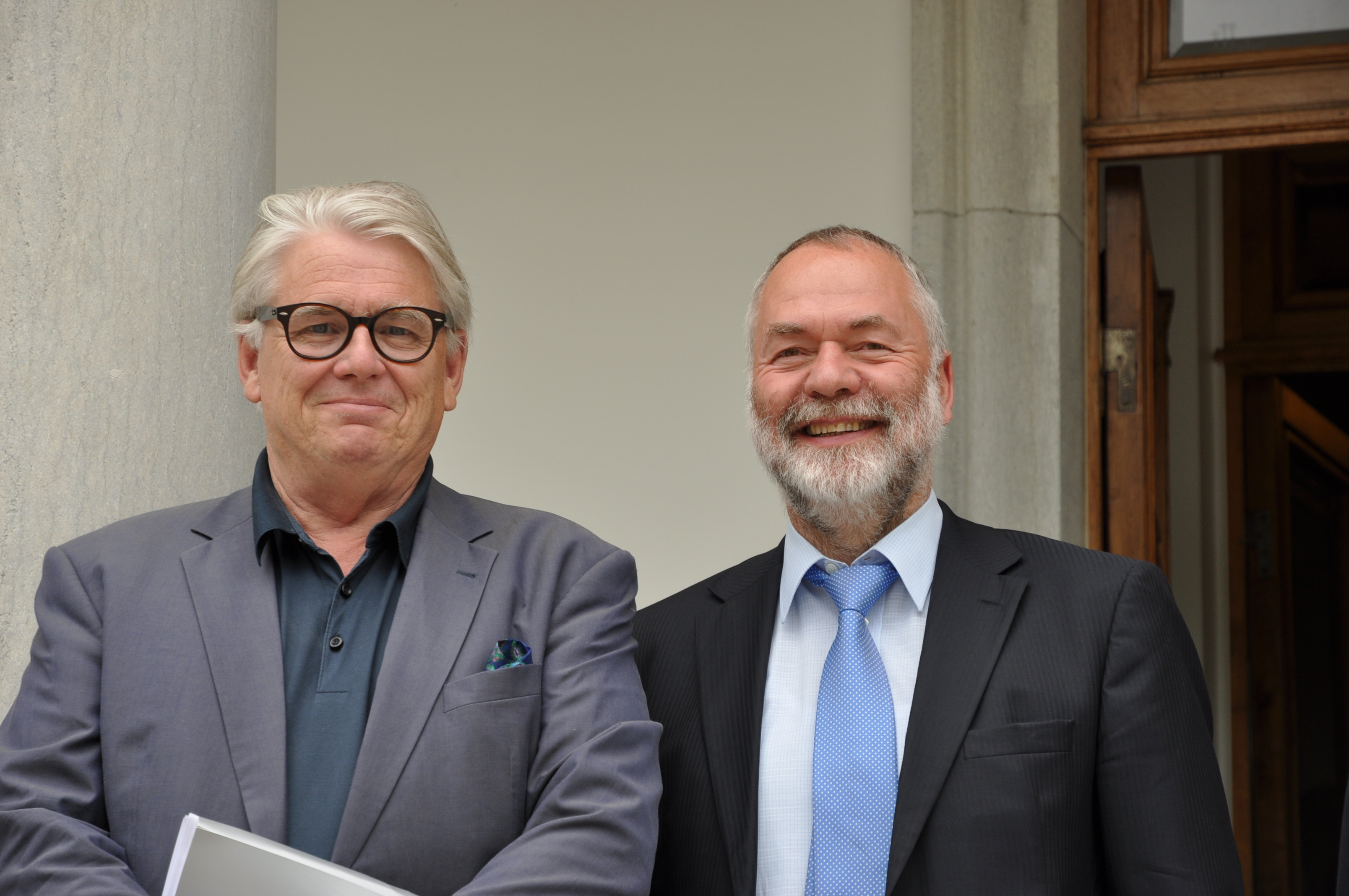 International Learned Committee of Experts of Estonian Institute of Historical Memory held a working meeting. Lasse Lehtinen and Markus Meckel.